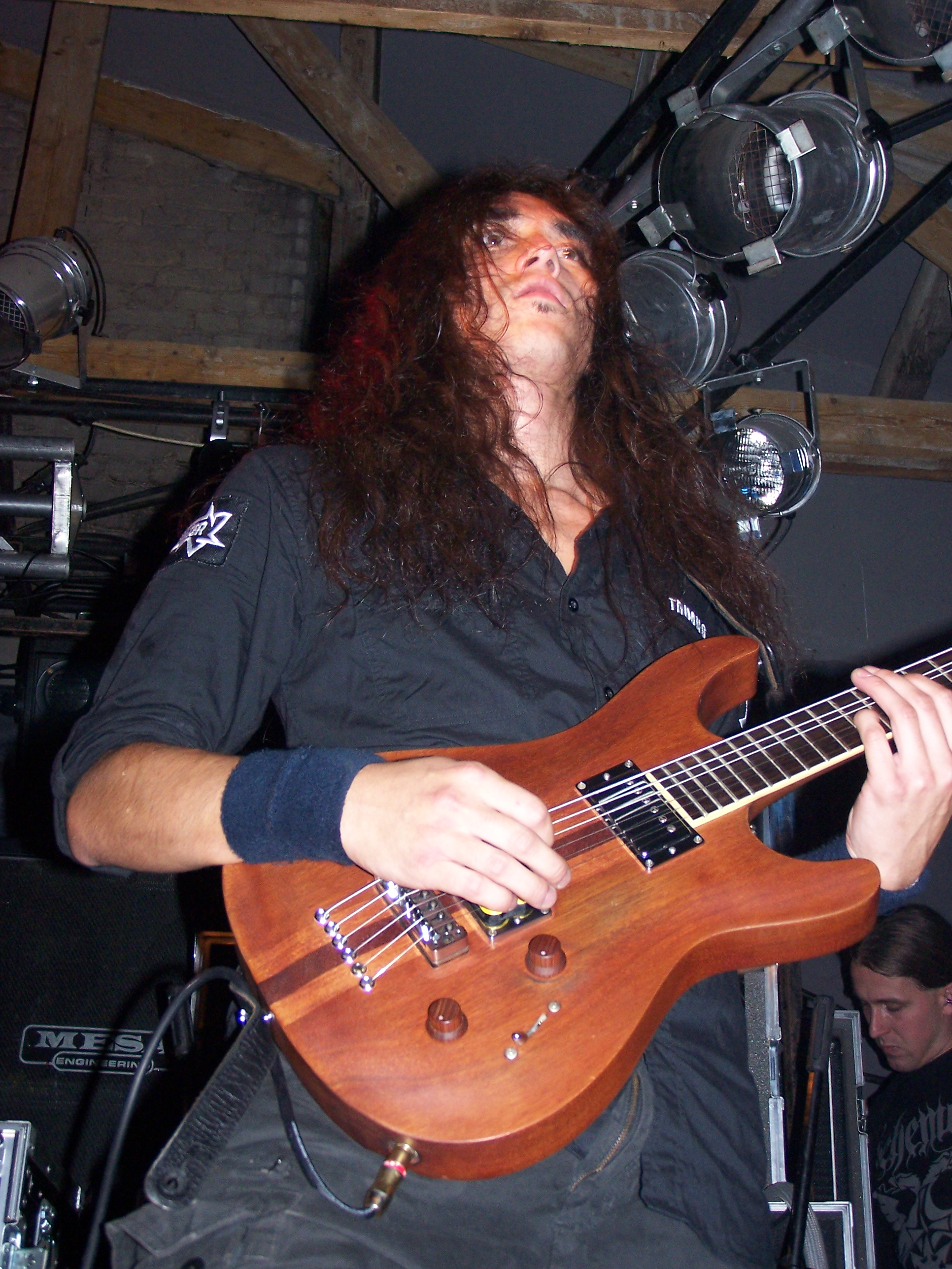 Michał Truong from Rootwater during Polish Apostasy Tour 2007 in Mega Club in Katowice.